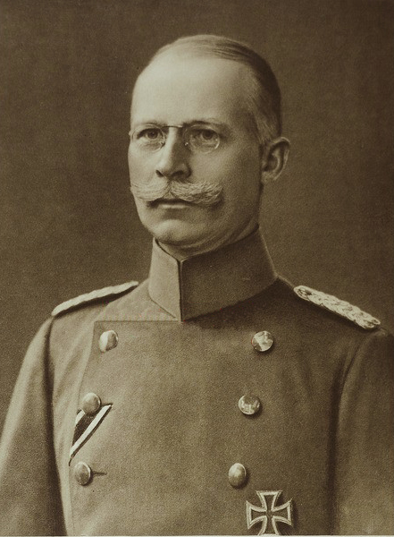 Photo of Gerhard Tappen